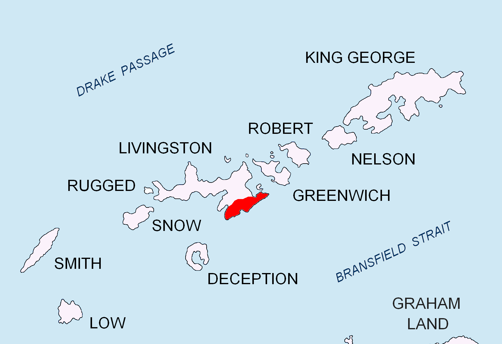 Location of Tangra Mountains on Livingston Island in the South Shetland Islands.